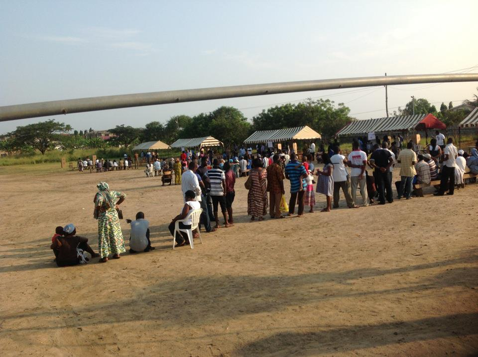 Ghanaians line up to vote in 2012 general elections